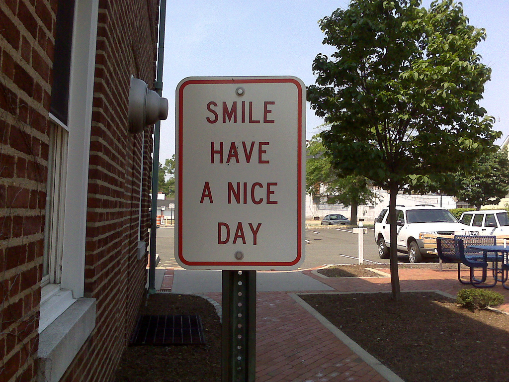 Smile have a nice day sign in Millburn, New Jersey